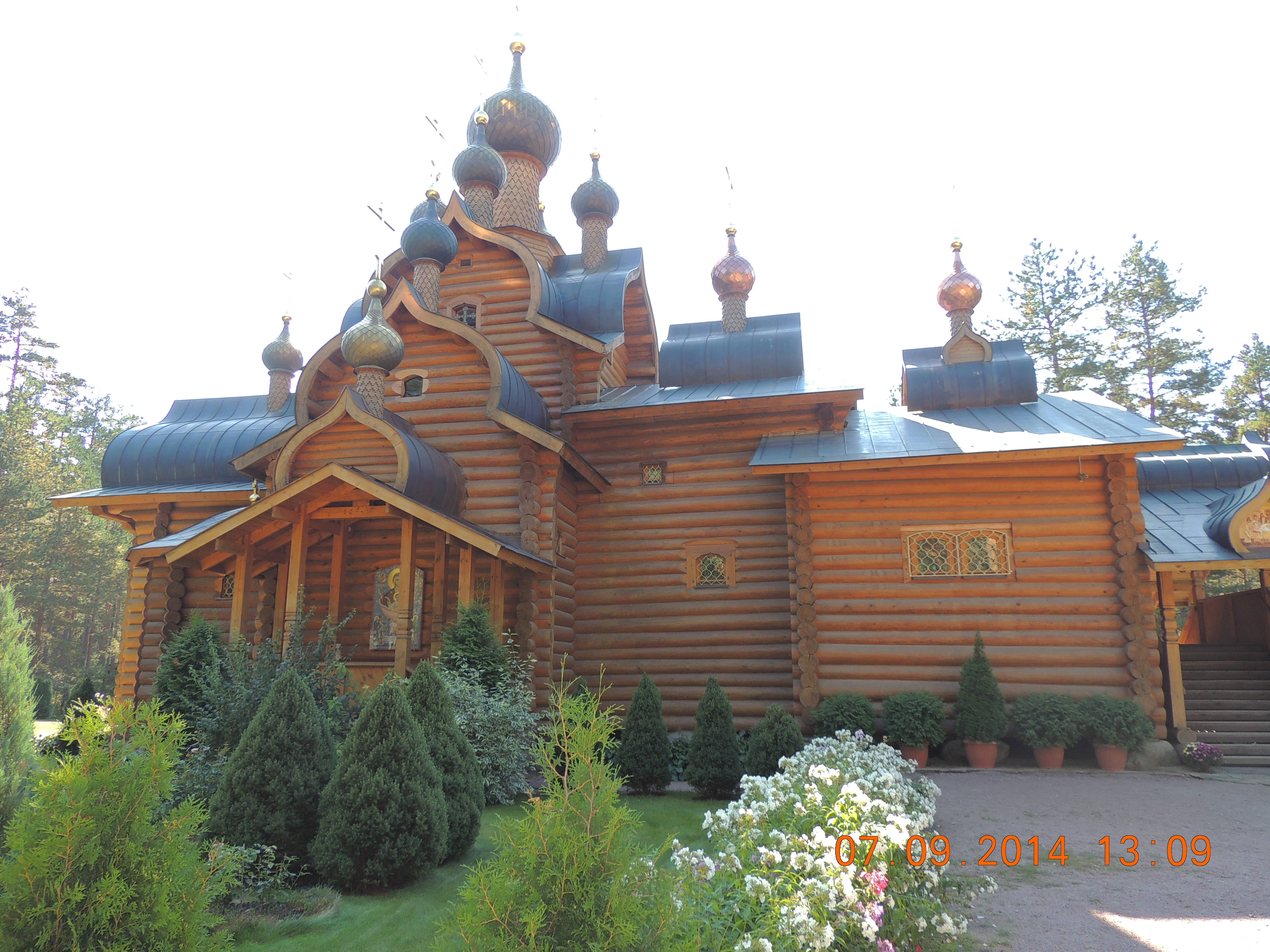 Church of All Russian Saints in the village of Pine